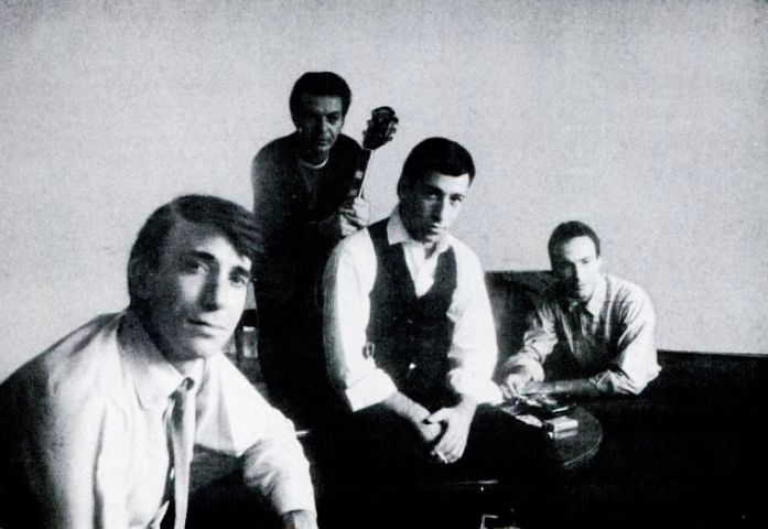 Trade ad for Dion and the Belmonts's single "Berimbau". To better adapt it to his respective Wikipedia article, the ad was cropped and cleaned in a graphics editing program. The original can be viewed at the source below.